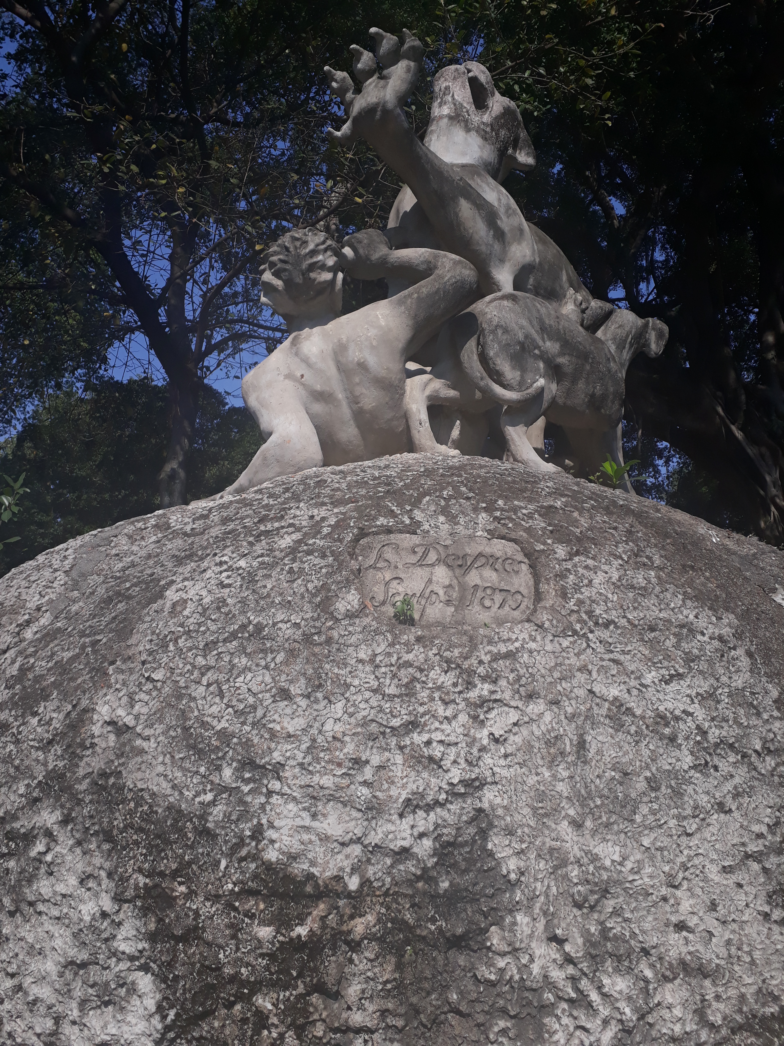 Sculpture located in Campo de Santana, Rio de Janeiro. It symbolizes a struggle between an animal and a man, thus an unequal struggle. Approximate photo of the sculpture. Cultural propertyLago do Campo de Santana, Rio de Janeiro, Brazil Q67205544, P727: Inventário dos Monumentos RJ ID: 218